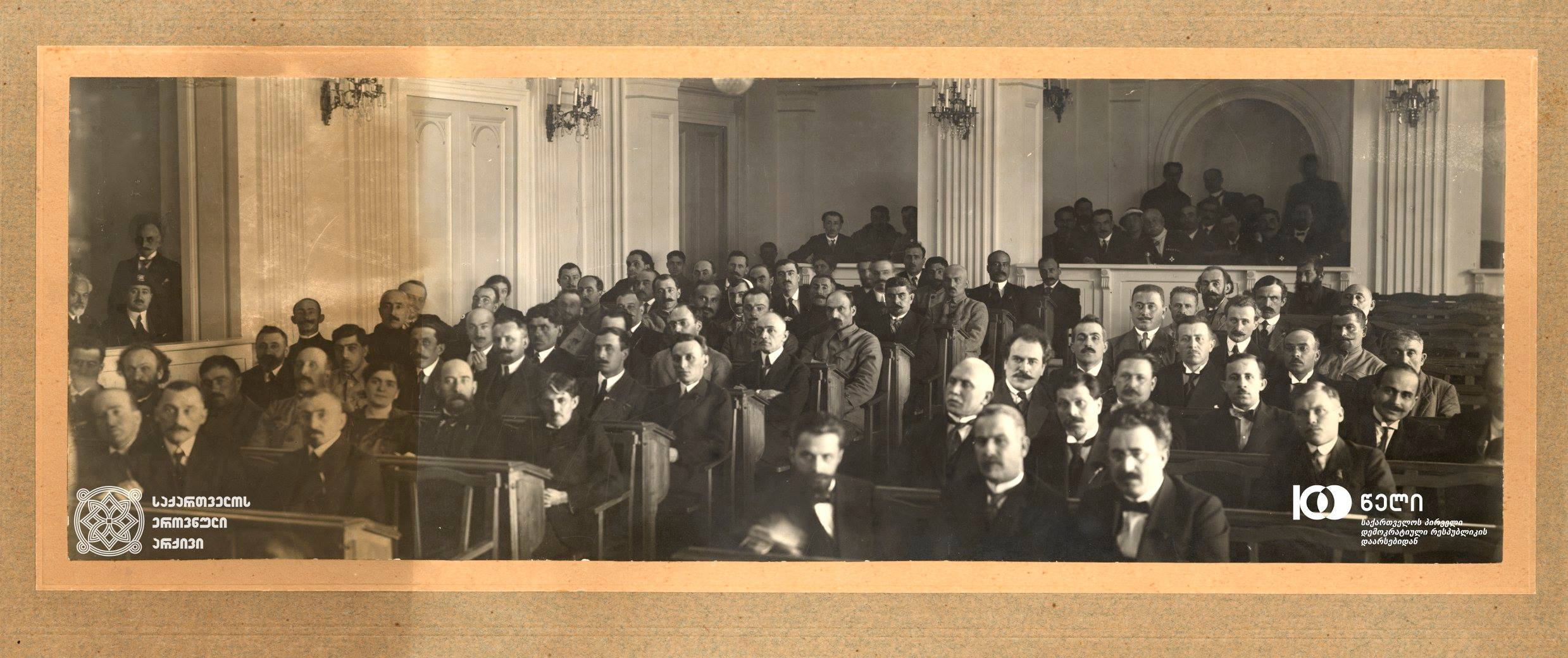 The first meeting of the Constituent Assembly of Georgia, Tbilisi, 12 March 1919 The left row: Noe Tsintsadze, Konstantine Andronikashvili, Razhden Arsenidze, Ilia Nutsubidze, Grigol Natadze, Ana Sologhashvili, Nikoloz Eliava, Grigol Uratadze, Mkrtich Vardoiantsy, Ruben Aushtrov, Andria Chiabrishvili, Nikipore Imnaishvili, Giorgi Gagloev, Arzakan Emukhvari, Giorgi Anjaparidze, Grigol Tsintsabadze, Elisabed Bolkvadze, Vasil Gurjua, Svimon Akhmetelashvili, Barnaba Dzvelaia, Davit Chkheidze, Sardion Tevzadze, Nikoloz Kumsiashvili, Shalva Nutsubidz, Gerasime Shevchuk, Iese Baratashvili, Samson Pirtskhalava, Simon Mdivani, Leon Shengelaia, Konstantine Kandelaki, Konstantine Sabakhtarashvili, Ivane Tatishvili, Eleonora Ter-Parsegova of Makhviladze, Pavle Tsulaia, Davarashvili, Giorgi Tsintsadze, Ilia Badridze, Vasil Tsuladze, Kirile Ninidze, Gabriel Tsiskarishvili, Giorgi Murvanidze, Ioseb Salakaia. The right row: Diomide Topuridze, Petre Geleishvili, Teodoe Kikvadze, Mikheil Kovaliov, Andrei Loskutov, Ilia Pirtskhalashvili, Ioseb Eligulashvili, Davit Sharashidze, Ivane Gomarteli, Davit Oniashvili, Ilia Kopaleishvili, Teimuraz Chelidze, Ruben Kipiani, Konstantine Japaridze, Vasil Tsabadze, Beniamin Chkhikvishvili, Alexandre Chikava, Ekvtime Takaishvili, Mamedov Husein Kuli-Mamed Oghli.